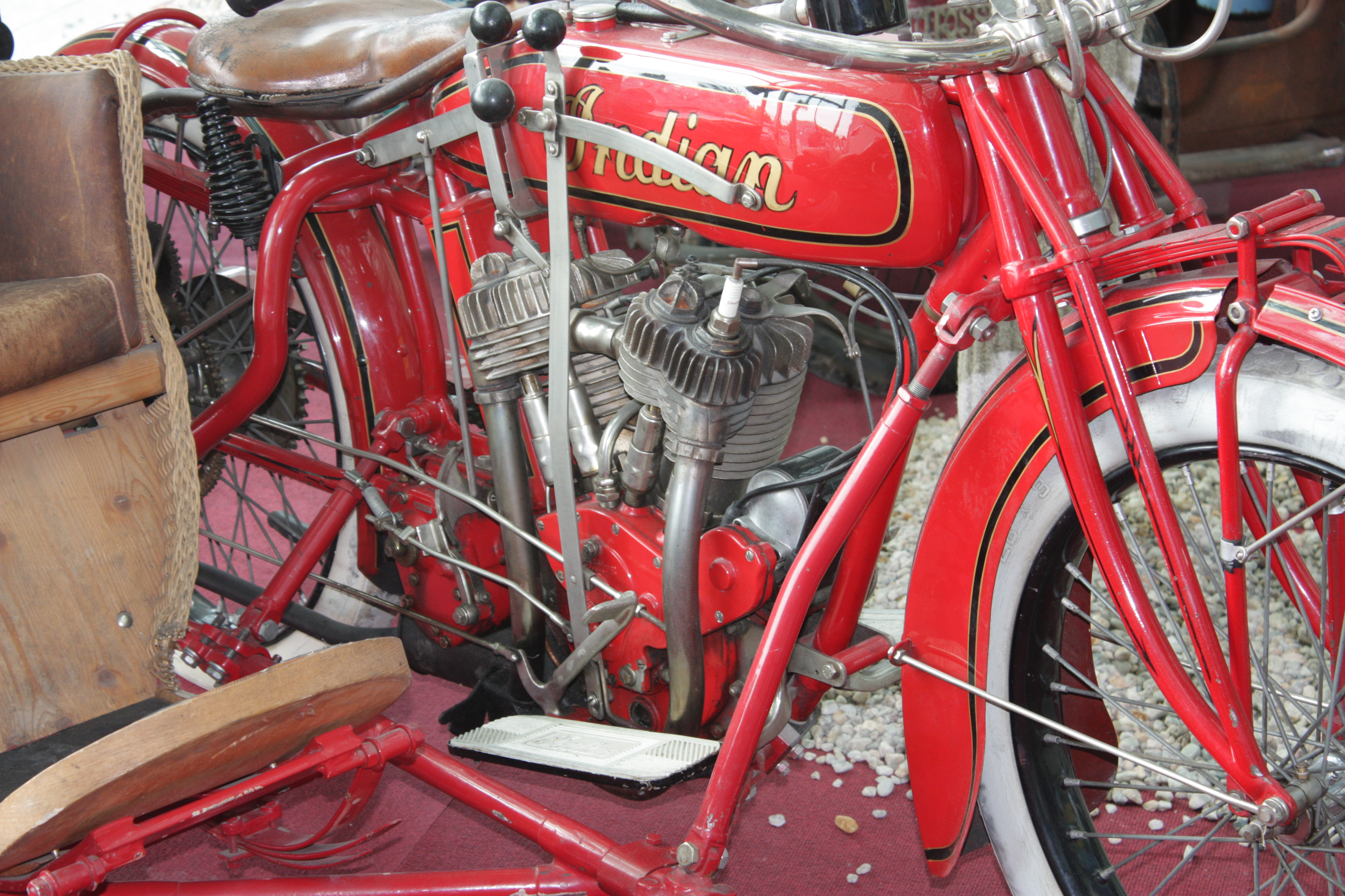 1918 Indian PowerPlus, 997 cc, 25 hp, with rear suspension and sidecar. Closeup of engine, hand controls, and sidecar attachments to frame. Seen at the Harley-Davidson Exhibition at Berlin Ostbahnhof